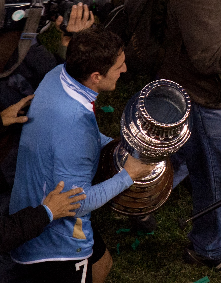 Cristian "Cebolla" Rodriguez with the Copa America trophy after winning the championship in 2011.